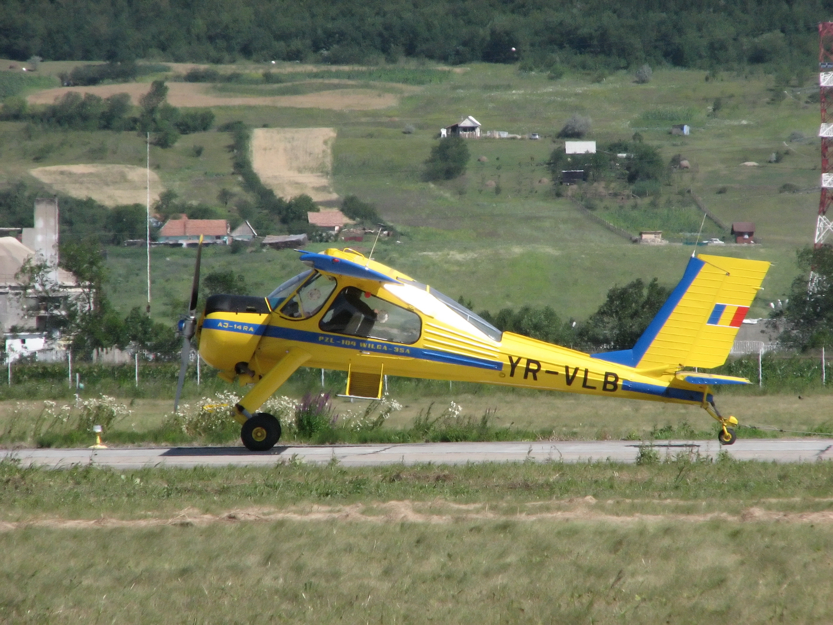 PZL-104 Wilga-35A aircraft (registration number YR-VLB), at an Air Show near Cluj-Napoca, in 2007